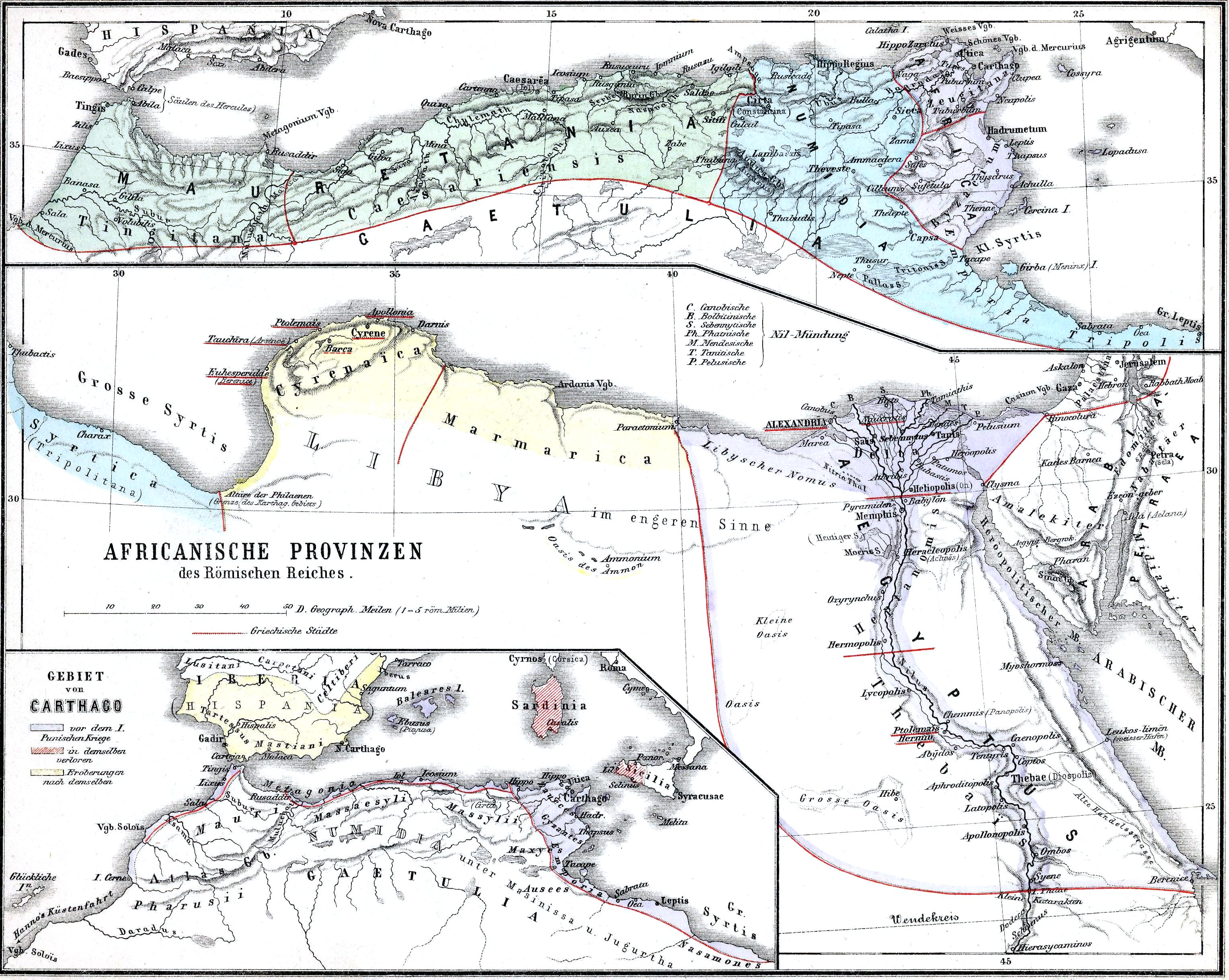 The African provinces of the Roman Empire. The smaller map in the lower left shows the territory of the pre-Roman state of Carthage (blue), with yellow showing conquests and hashed red indicating territory lost to Rome in the First Punic War.